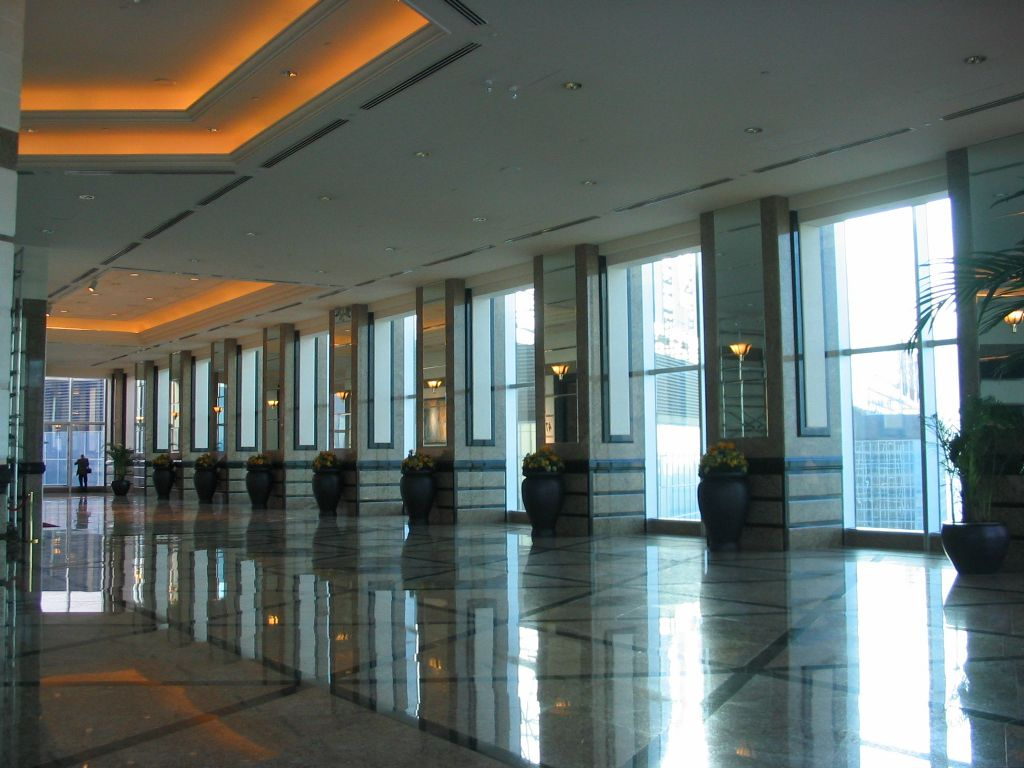 中環廣場46樓空中大堂 Sky Lobby located at 46/F Central Plaza